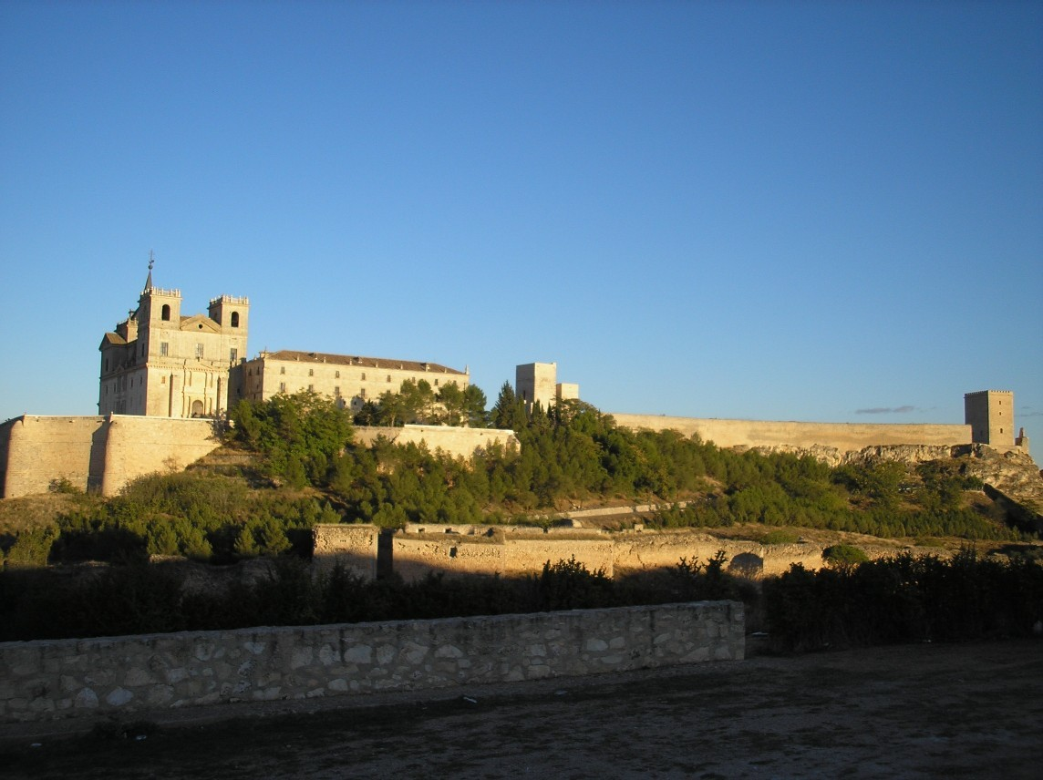 Taken by Valdoria. Oct. 2006